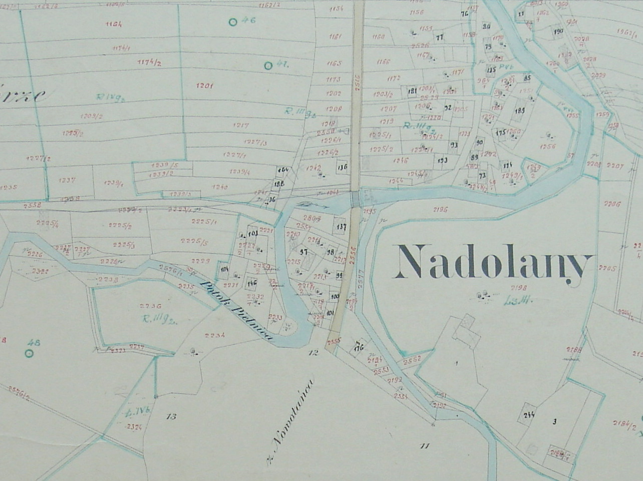 cadastral map (part) of village Nadolany (suburbs of Nowoatniec) from 1852, photo Marek Silarski